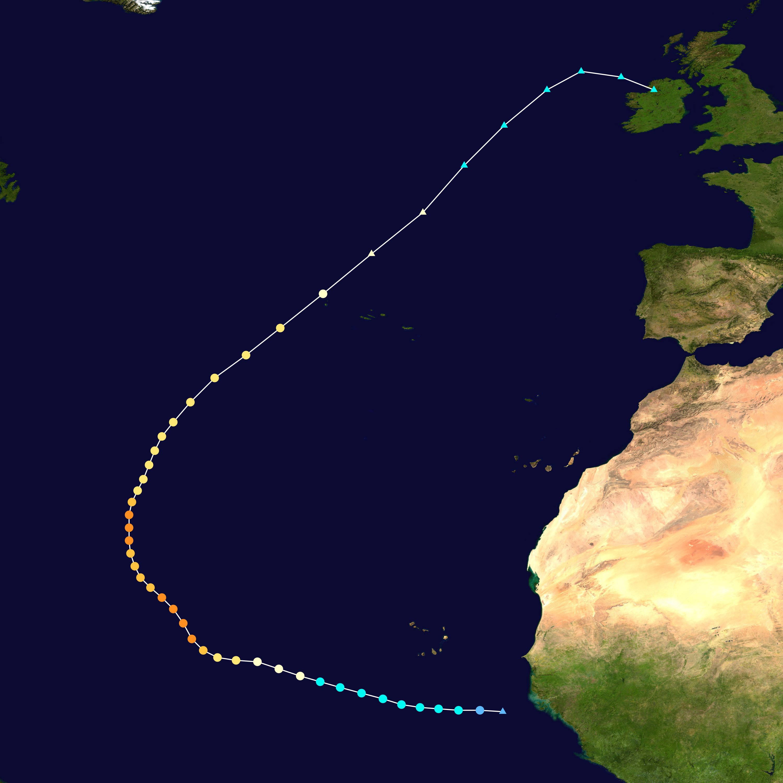 Track map of Hurricane Lorenzo of the 2019 Atlantic hurricane season. The points show the location of the storm at 6-hour intervals. The colour represents the storm's maximum sustained wind speeds as classified in the Saffir–Simpson scale (see below), and the shape of the data points represent the nature of the storm, according to the legend below. Saffir–Simpson scale Tropical depression≤38 mph≤62 km/h Category 3111–129 mph178–208 km/h Tropical storm39–73 mph63–118 km/h Category 4130–156 mph209–251 km/h Category 174–95 mph119–153 km/h Category 5≥157 mph≥252 km/h Category 296–110 mph154–177 km/h Unknown Storm type Tropical cyclone Subtropical cyclone Extratropical cyclone / Remnant low / Tropical disturbance / Monsoon depression